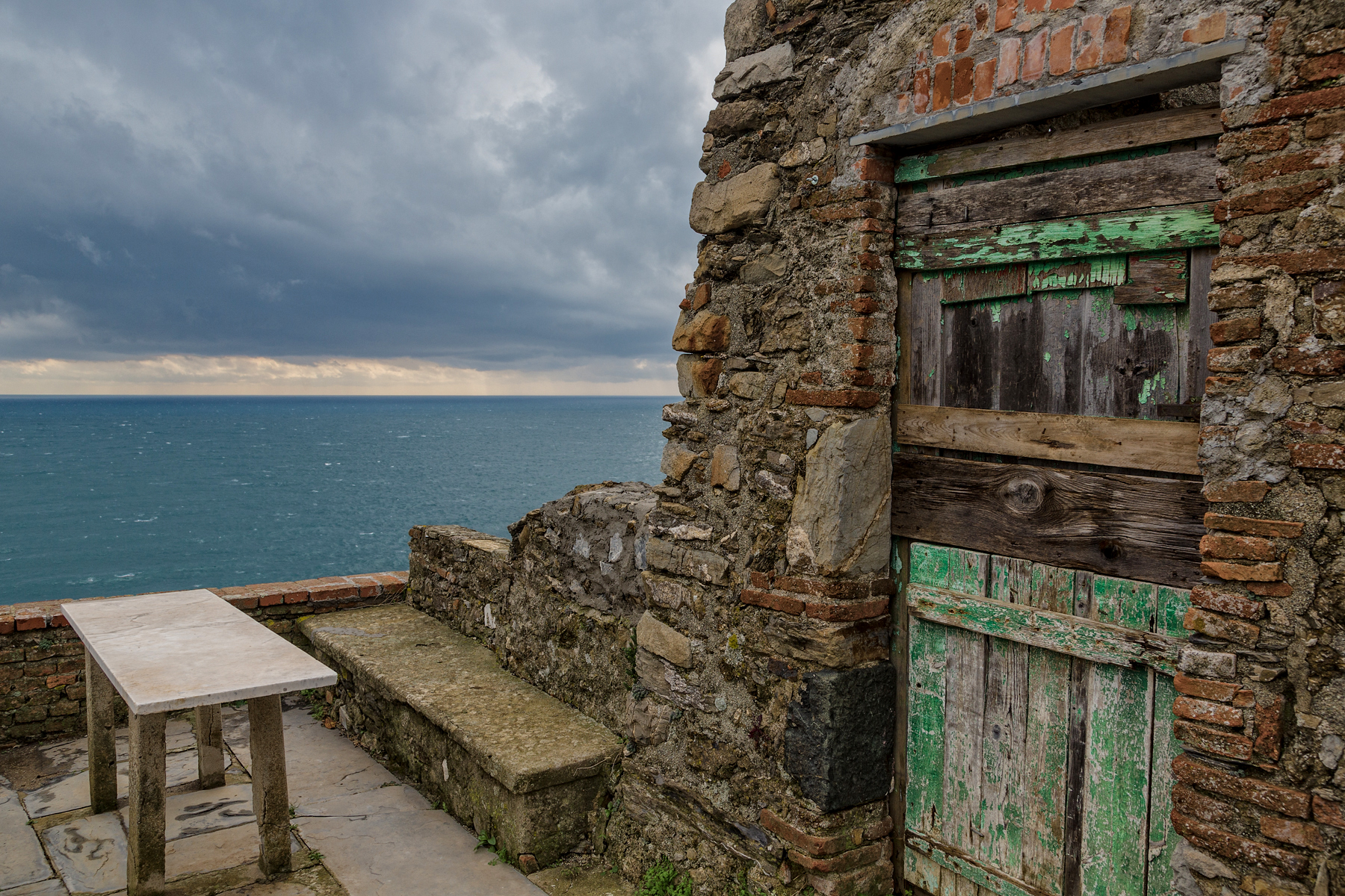 Church and Monastery of Capuchin Friars in Monterosso al Mare - Cinque Terre - Italy It's one of the best monuments in Monterosso, a monastery of the XVII century with a spiritual and peacefull atmosphere according to the experience of St. Francis of Assis. This is a photo of a monument which is part of cultural heritage of Italy.